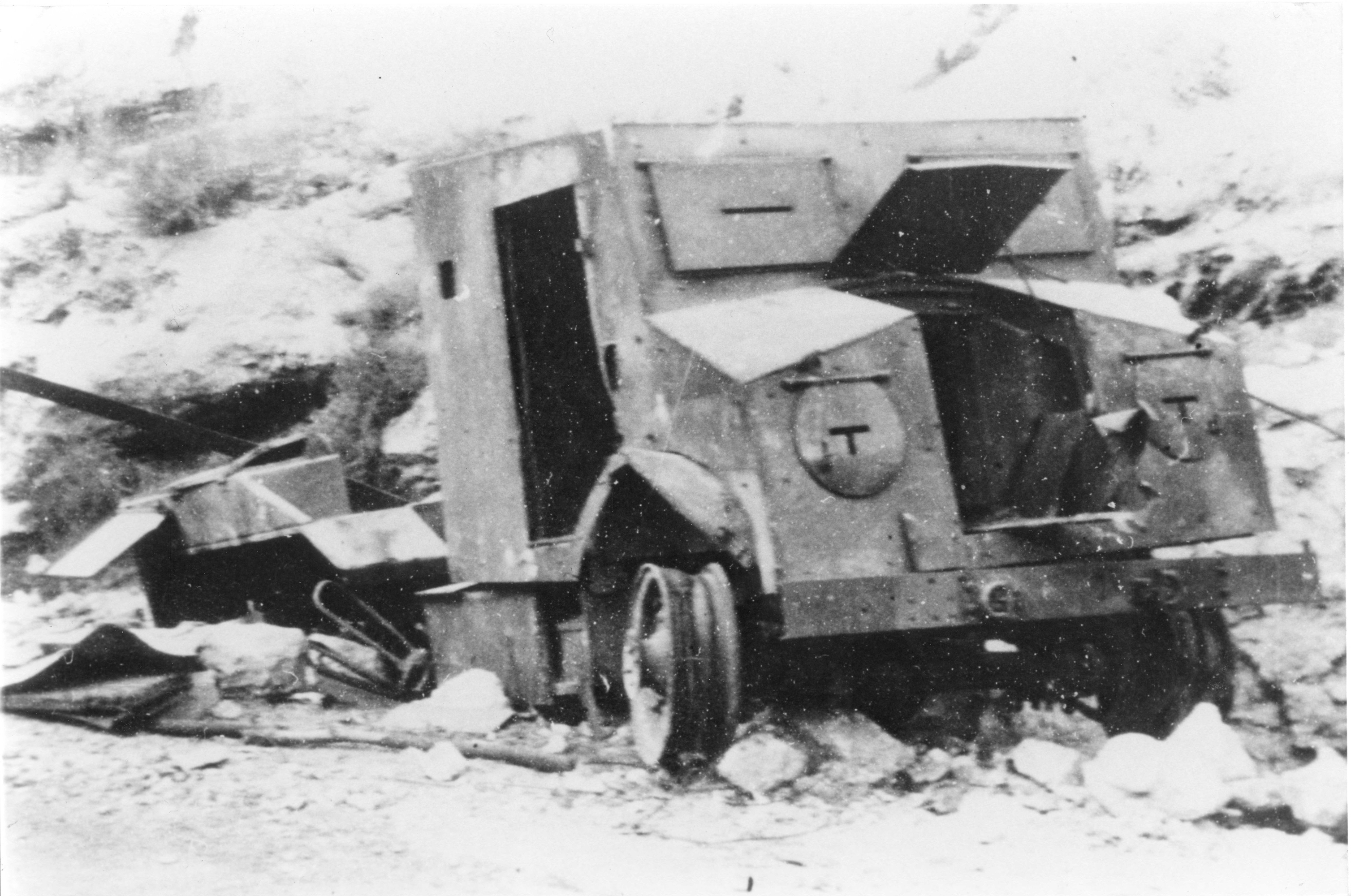 The Palmach, Israel Defense Forces